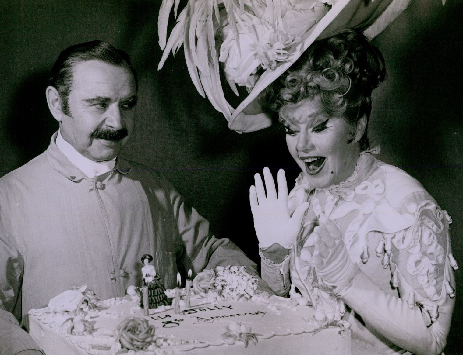 David Burns and Ginger Rogers celebrating the third anniversary of the Broadway's production Hello, Dolly! - publicity still (cropped)